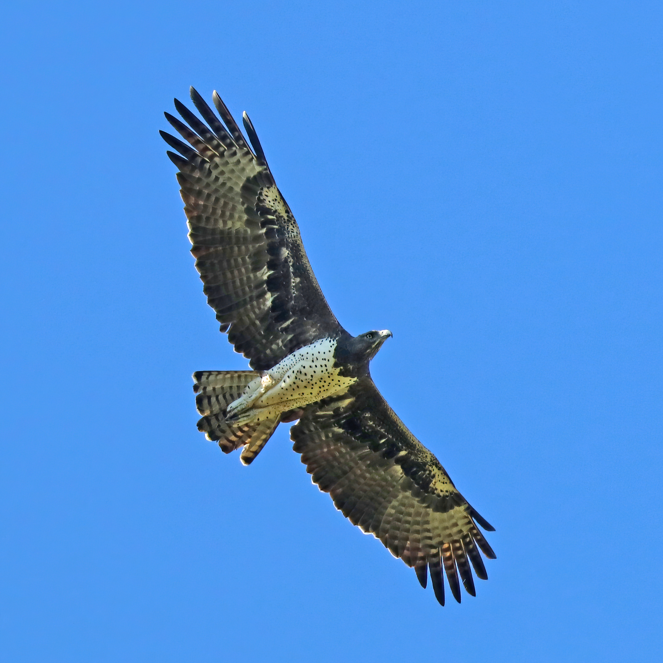 Martial eagle (Polemaetus bellicosus) in flight, Matetsi Safari Area, Zimbabwe